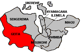 Geita Map